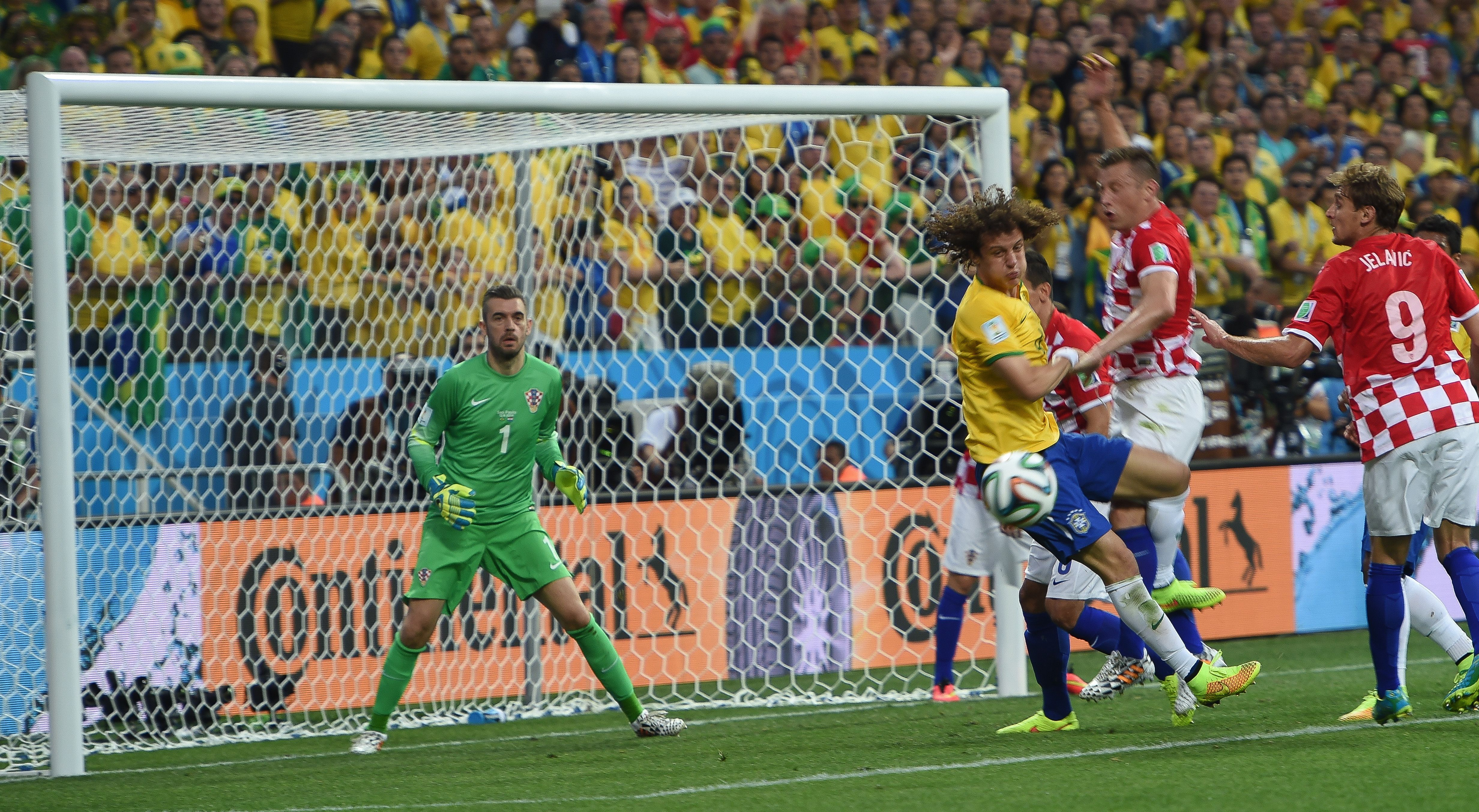 Brazil and Croatia match at the FIFA World Cup 2014-06-12